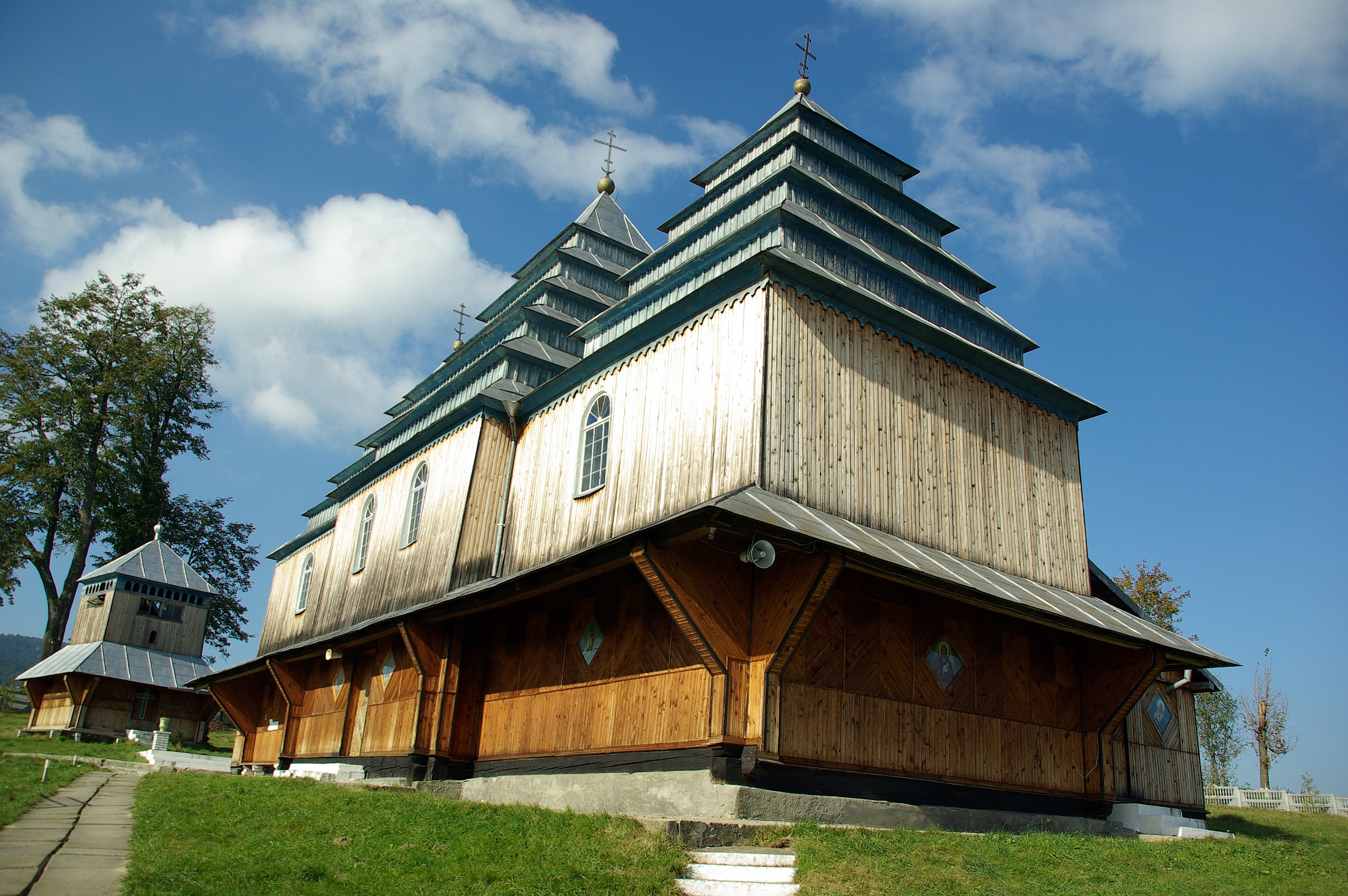 Orthodox church in Rozluch (Ukraine)